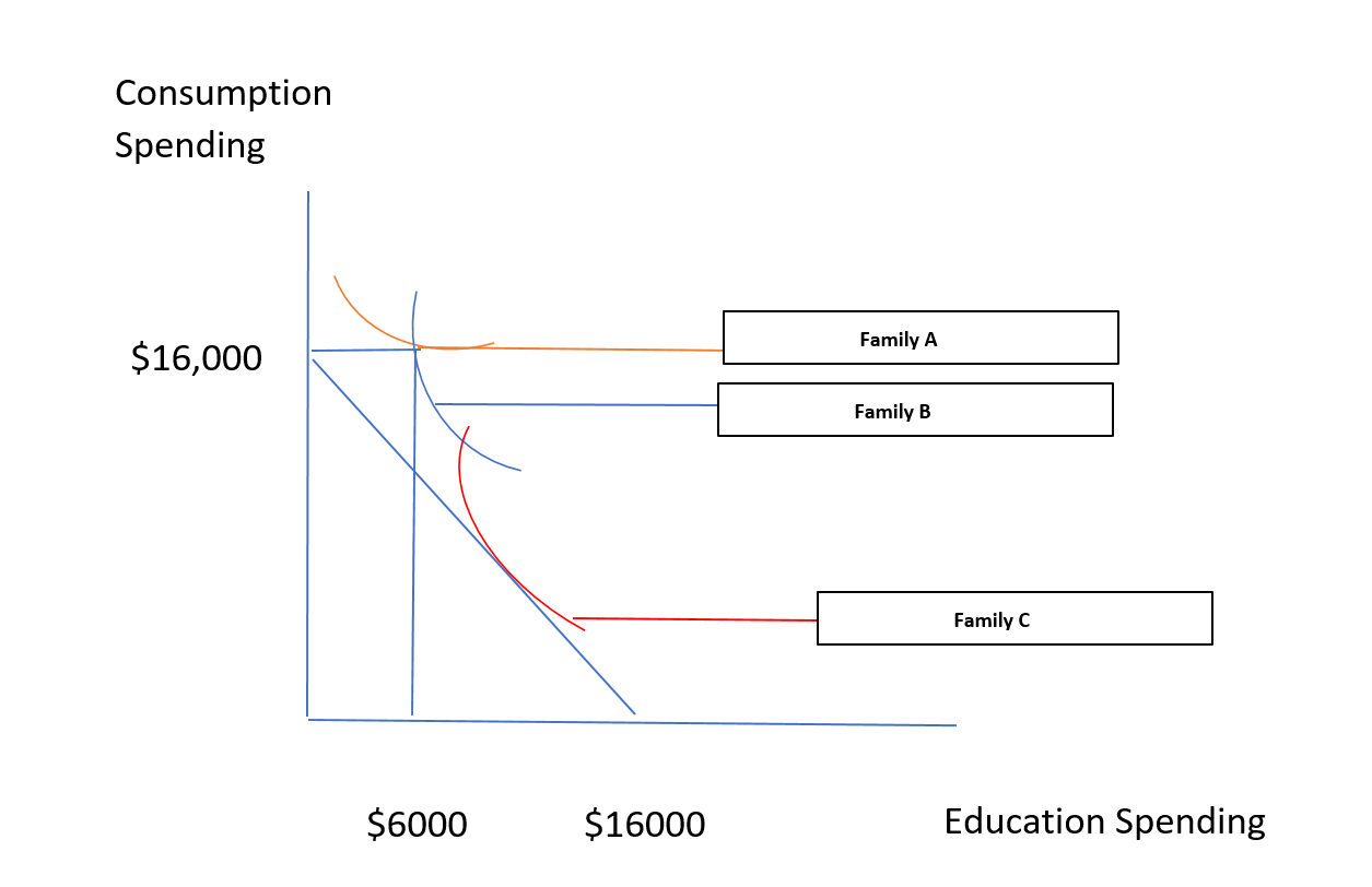 A graph showing the typical education and consumption bundles that a family has